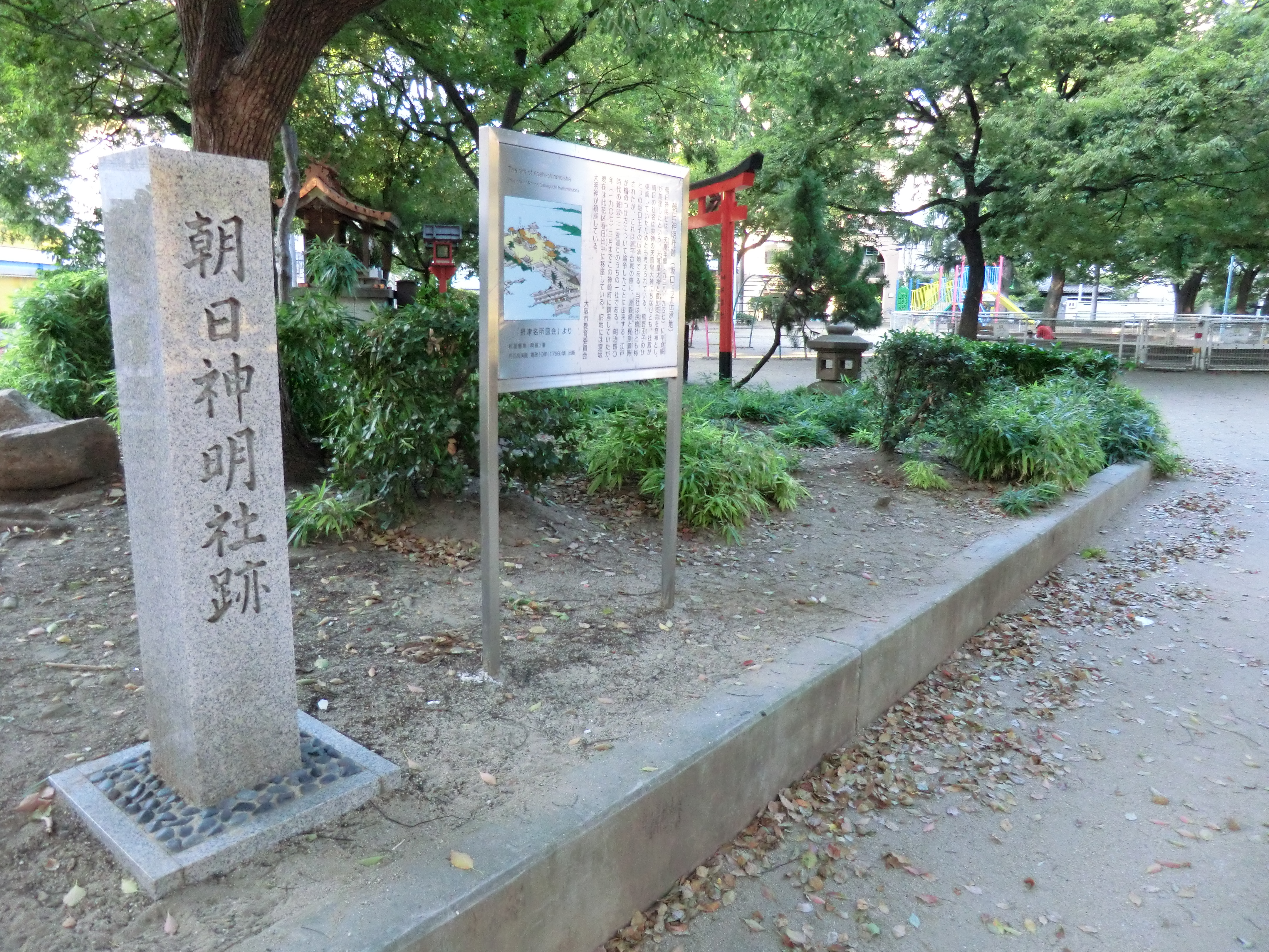 The Site of Asahi-sinmeisha (the site of Prince Sakaguchi transmission)